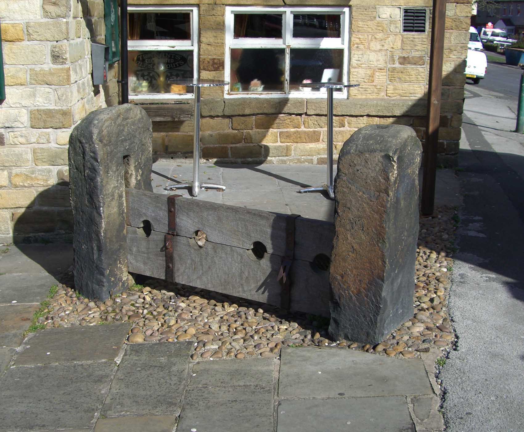 Medieval stocks at Wadsley Jack Public house, Wadsley, Sheffield